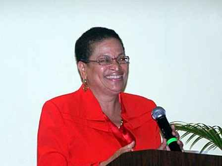 Dr. Malveaux was the keynote speaker at my mentoring program celebrating the students End of the Year success.